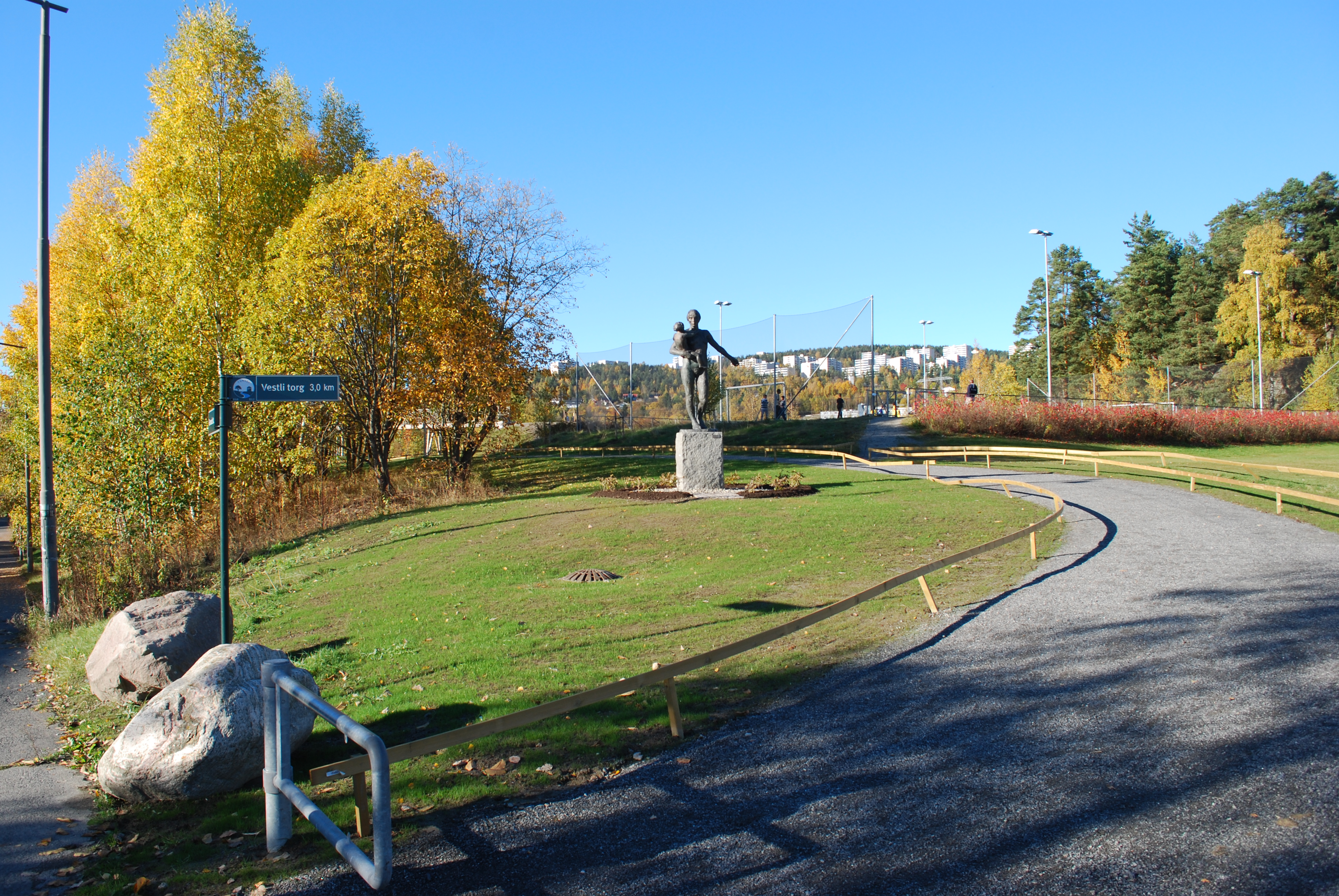 Rommensletta skulpture park, Smedstua, Oslo, entrance from Kristoffer Robins vei